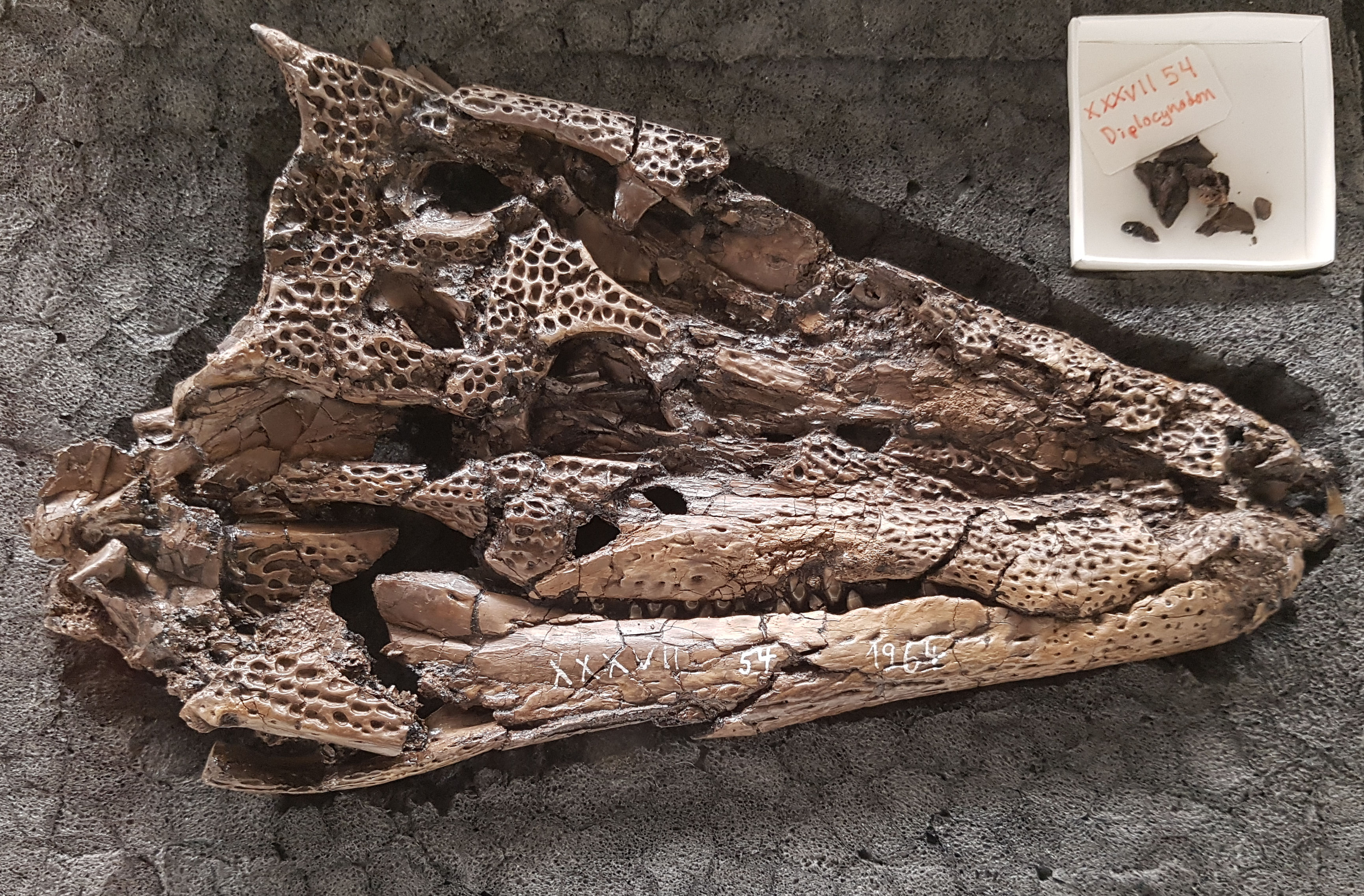 skull of Diplocynodon from the Geiseltal, Germany, Middle Eocene; took the picture in the Geiseltalmuseum, Halle (Saxony-Anhalt)